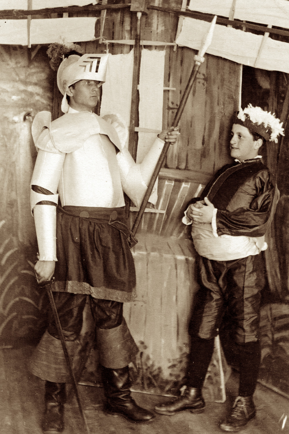 Presentation of the play Don Quichotte et les petits meuniers in 1906 at the Sacred Heart Cillege in Caraquet.